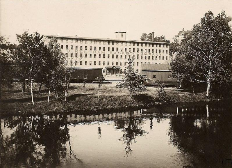 The H. B. Needham Basket Company, Peterborough, New Hampshire